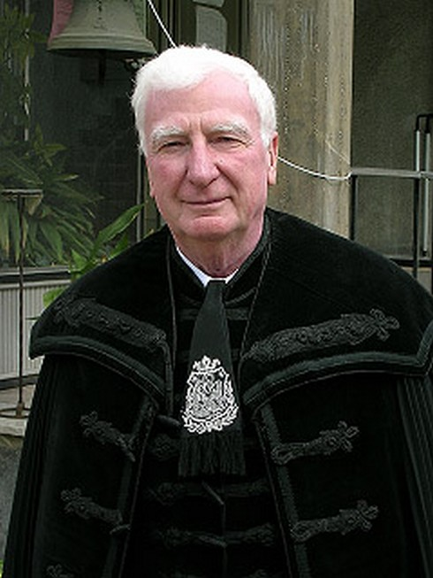 Kalman Csiha Transylvanian Calvinist Bishop